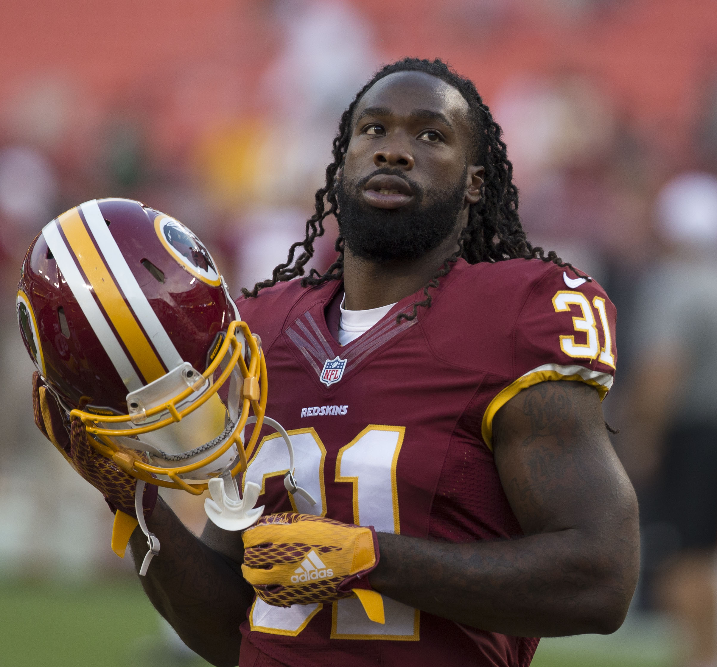 Jaguars at Redskins 9/3/15